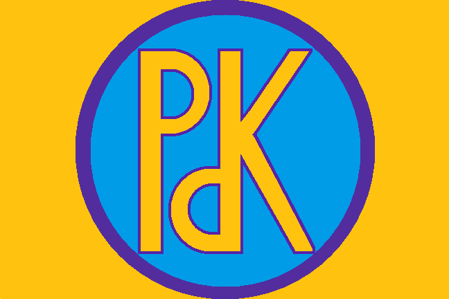 Former flag of the Kurdistan Democratic Party